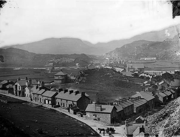 1 negative : glass, wet collodion, b&w ; 16.5 x 21.5 cm.